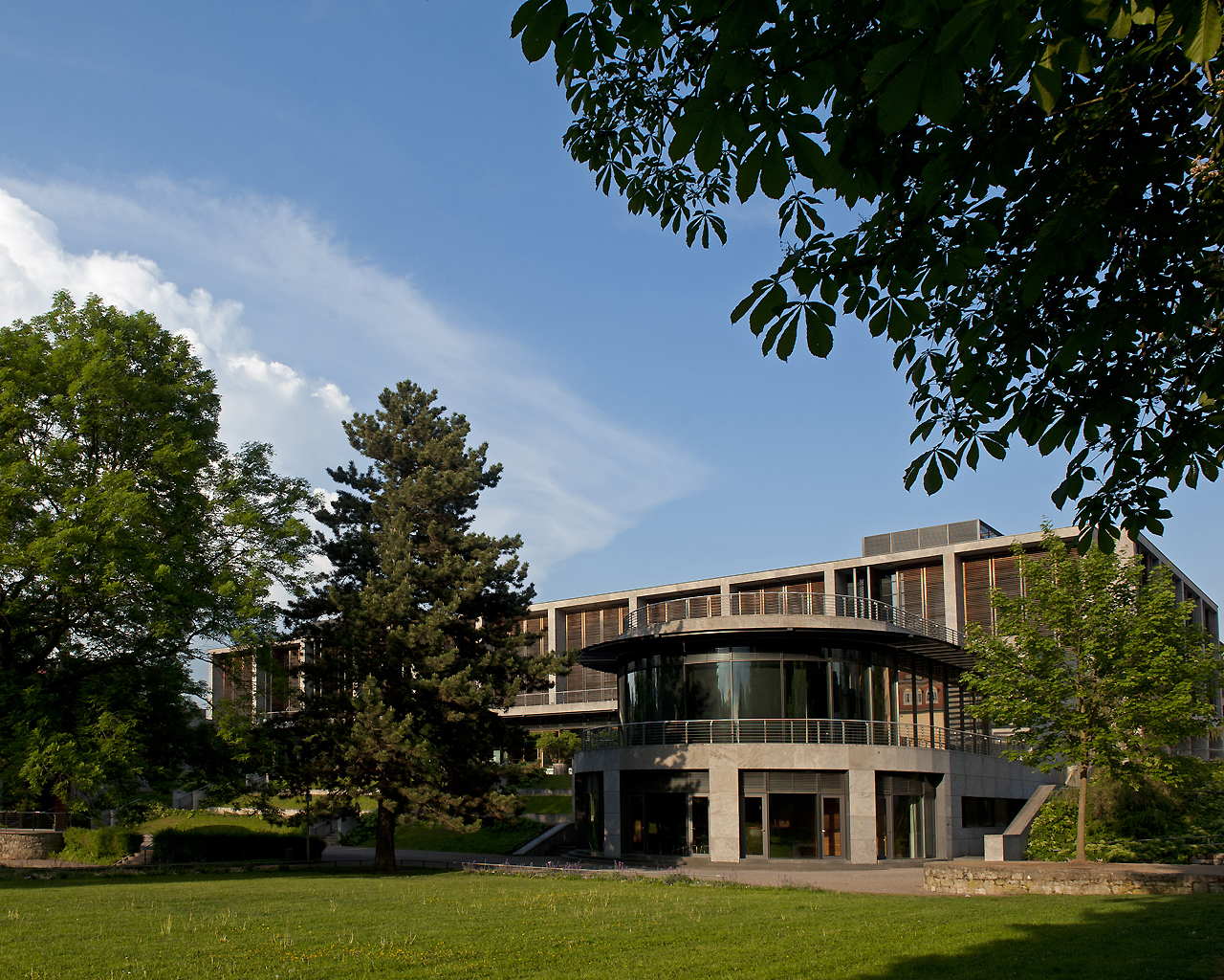 Weimarhalle, Parksite Foto: Maik Schuck / Weimar GmbH